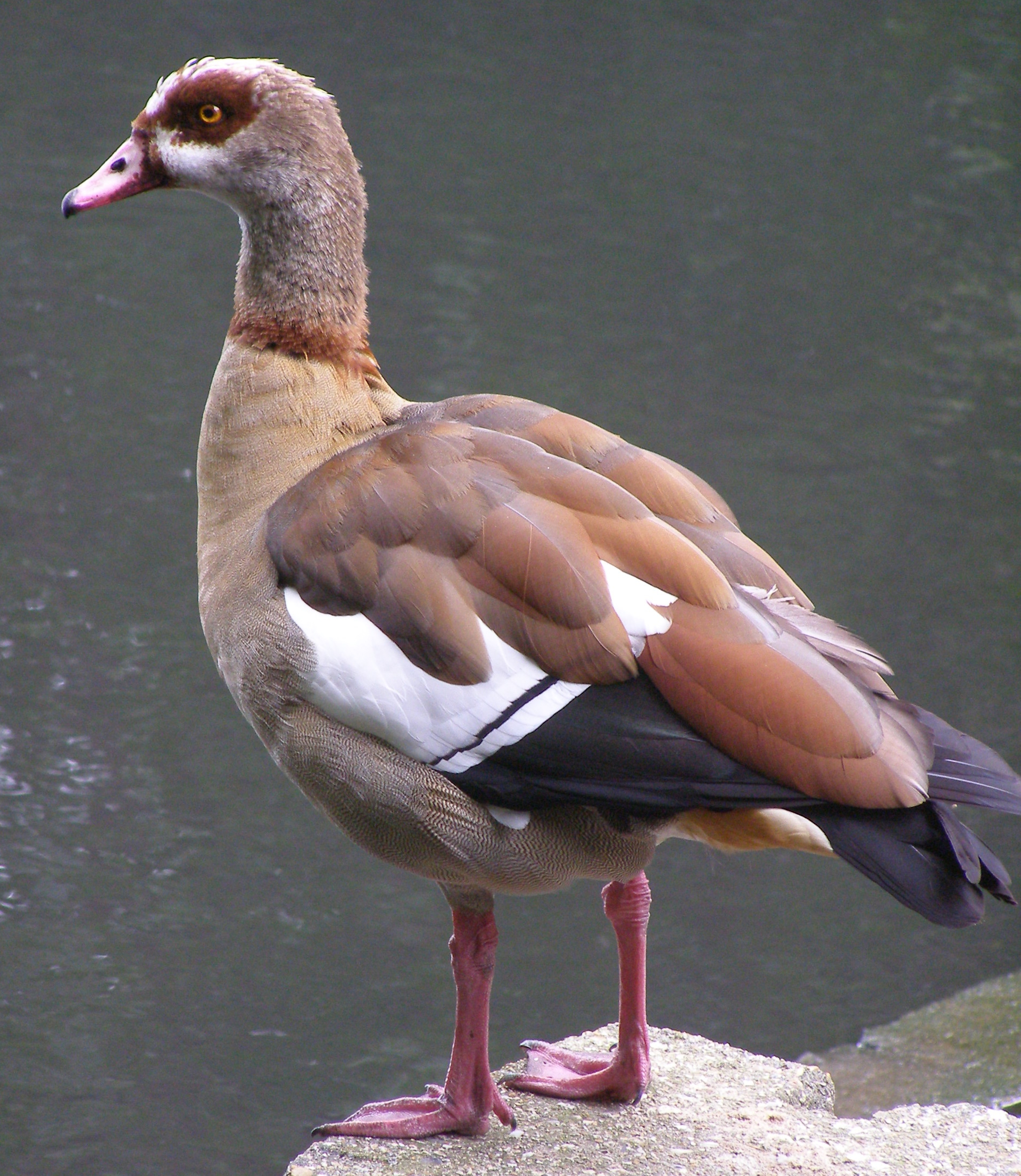 Egyptian Goose (Alopochen aegyptiacus) rufous morph male. Reading, UK.